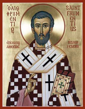 St Frumentius, the Apostle of Ethiopia